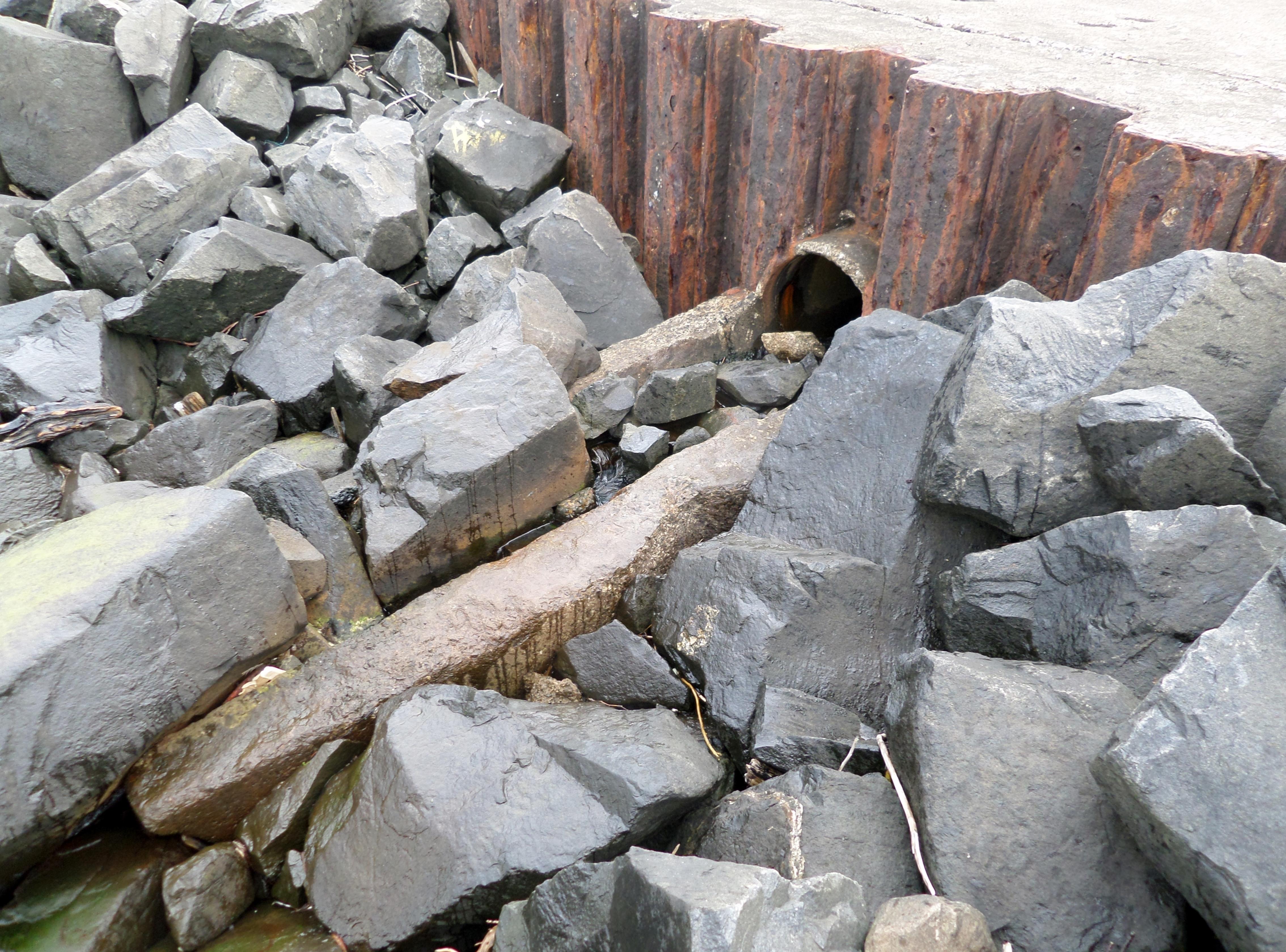 The old exit of the Newton Loch, Newton-on-Ayr promenade, Scotland.